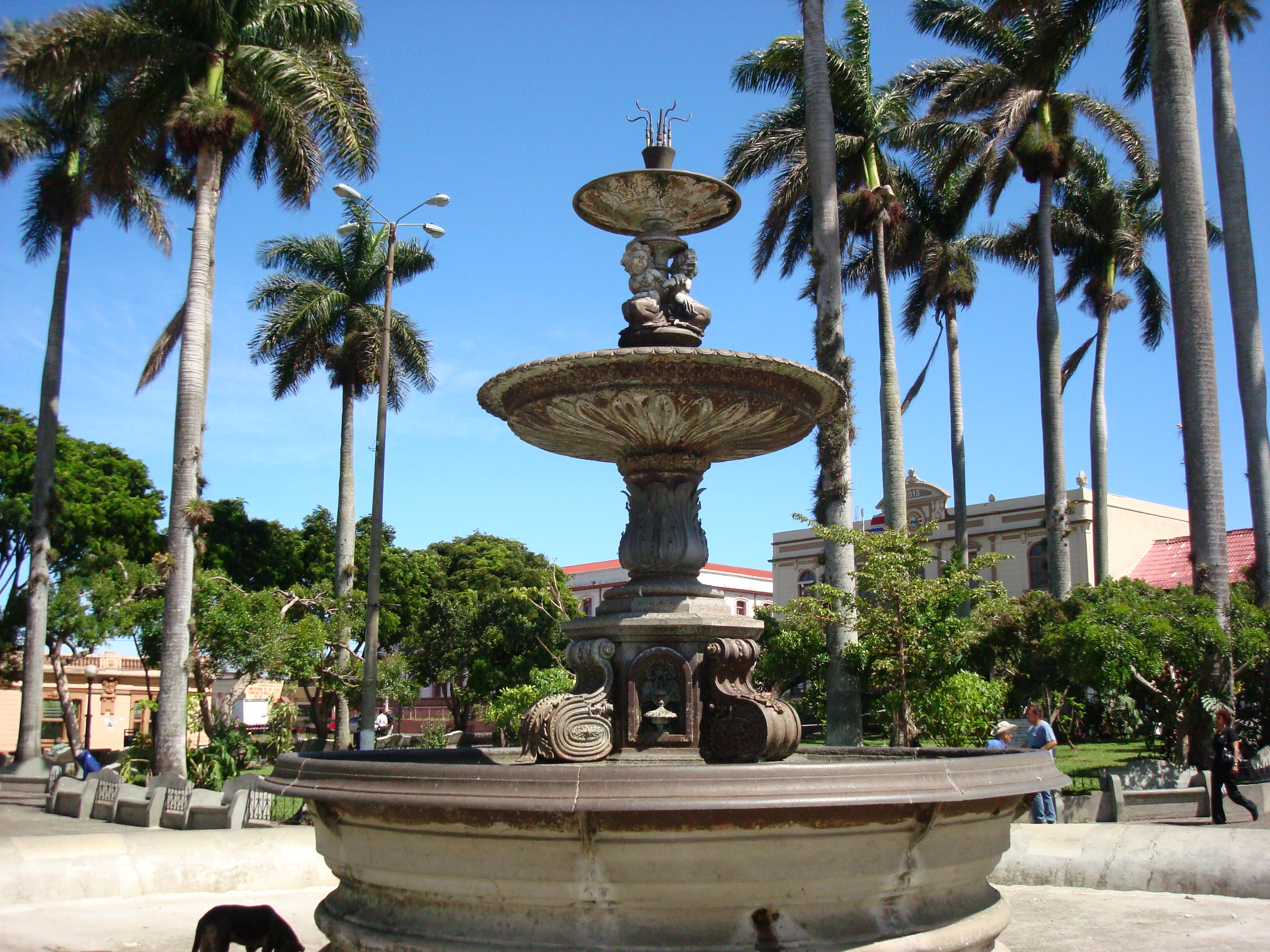 Central Park, fountain and palm trees — Heredia, Costa Rica.